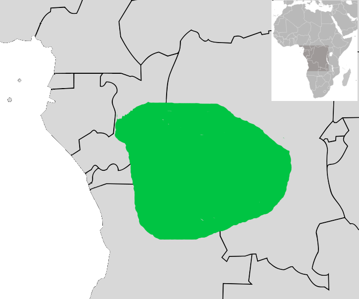 Range map for Phedina brazzae Based on Turner, Angela K; Rose, Chris (1989) A Handbook to the Swallows and Martins of the World, London: Christopher Helm, p. 58 ISBN: 0-7470-3202-5. IUCN species page Mapped onto 2000px-Blank_Map-Africa.svg.png